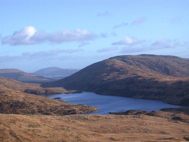 Loch Valley from the northern ridge approach to Buchan Hill.